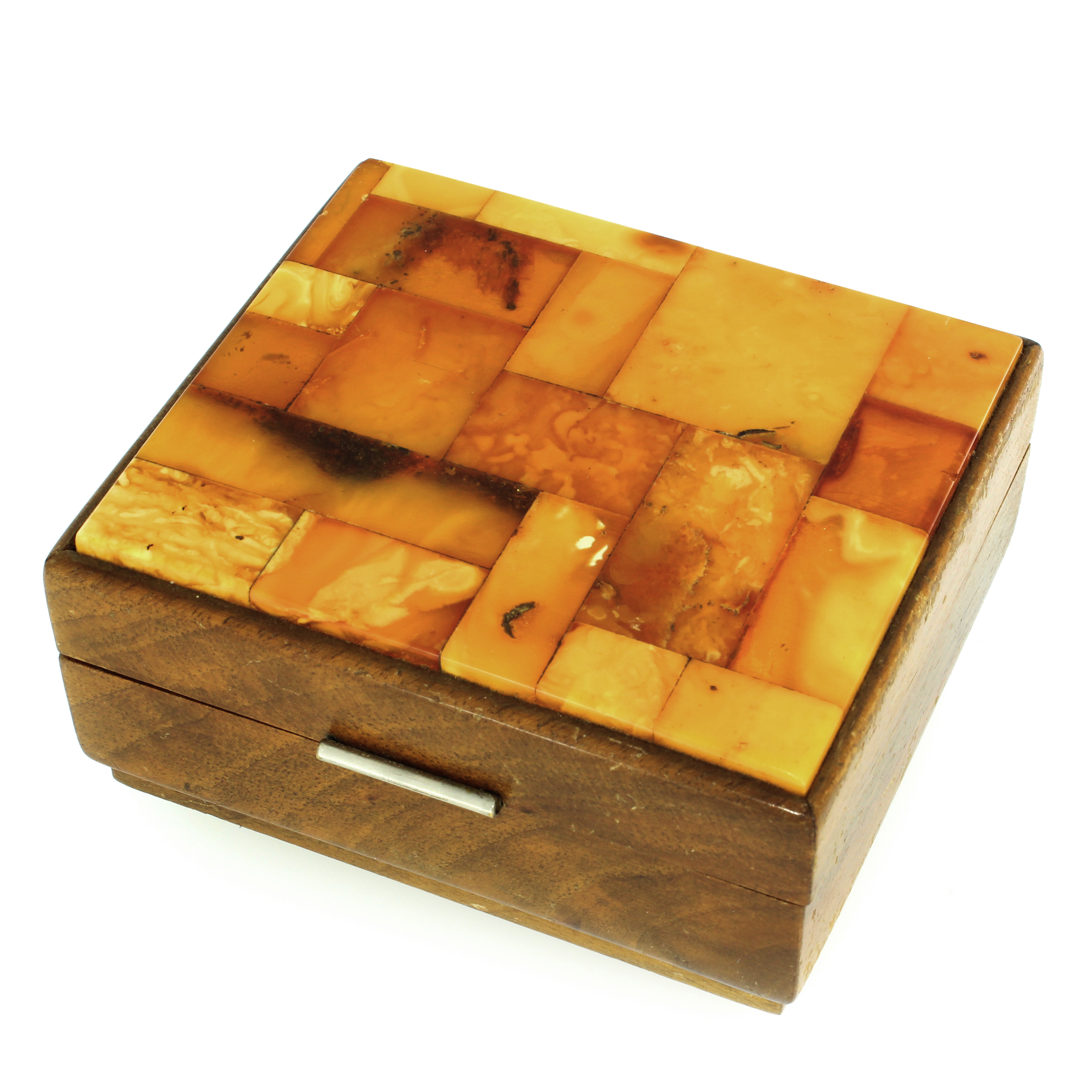 Wooden box with amber intarsia, Staatliche Bernstein-Manufaktur Königsberg, ca. 1930. Property of Hofer Antikschmuck, Berlin (Germany).